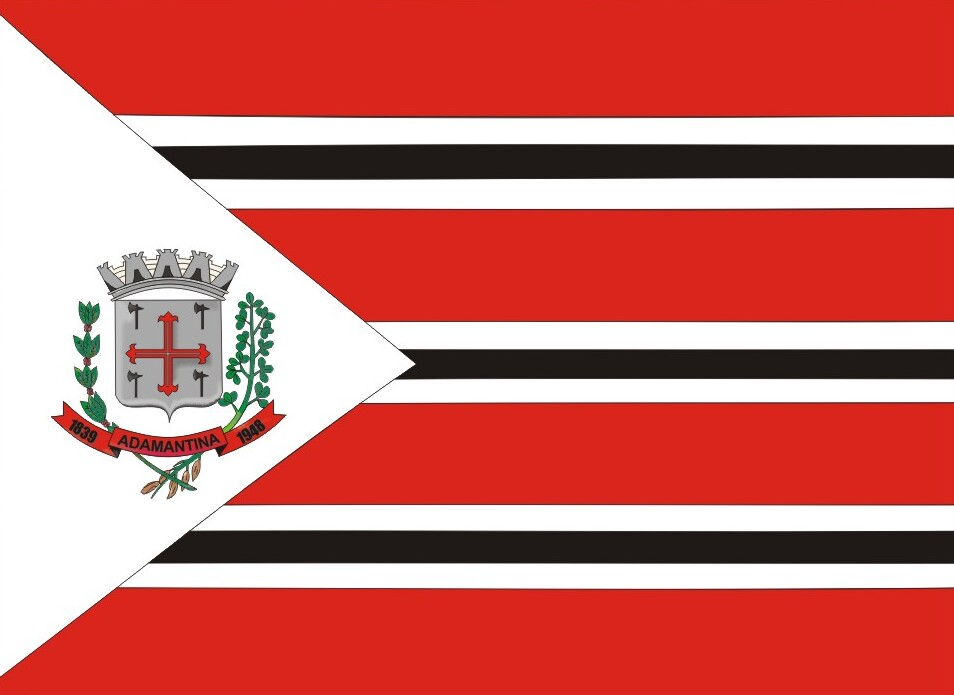 Flag of city of Adamantina, São Paulo, Brazil